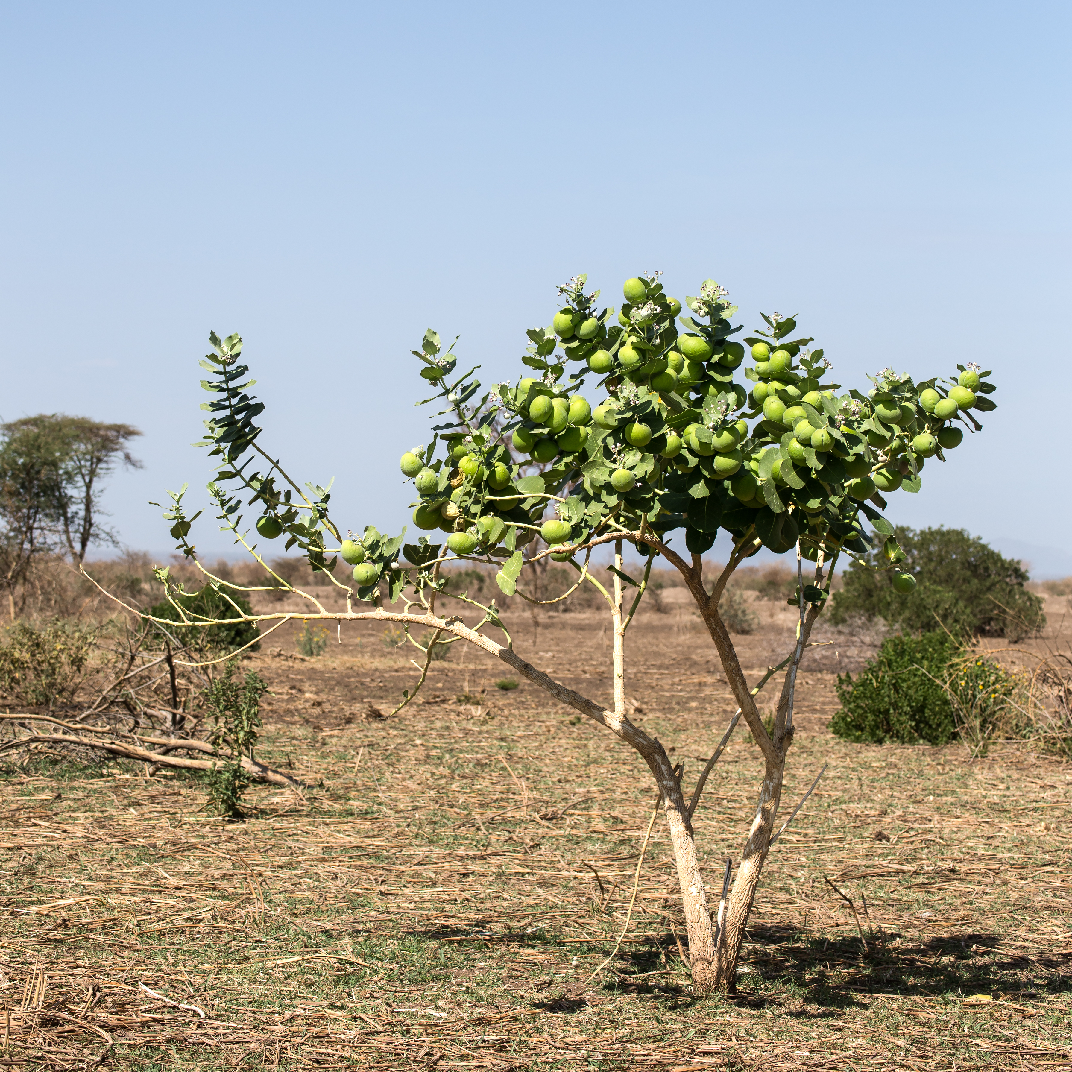 Calotropis procera